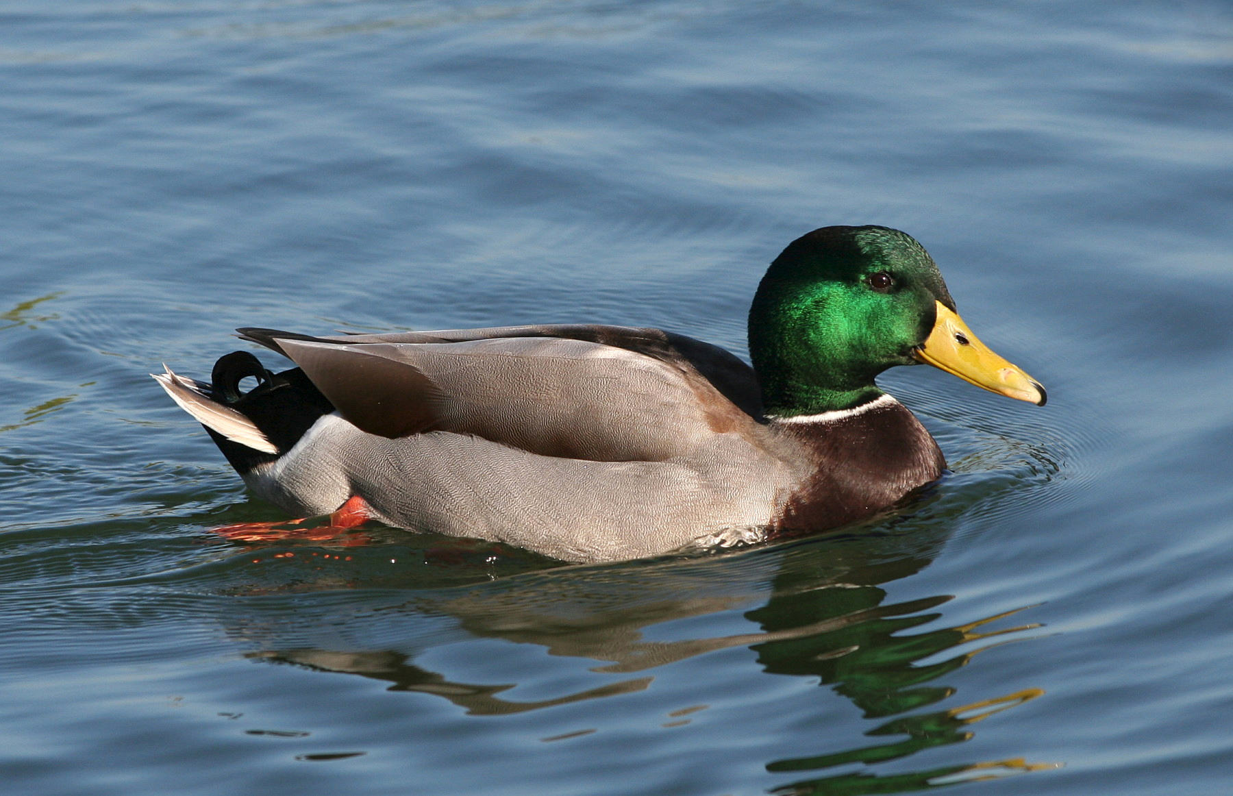 Male Mallard (Anas platyrhynchos).